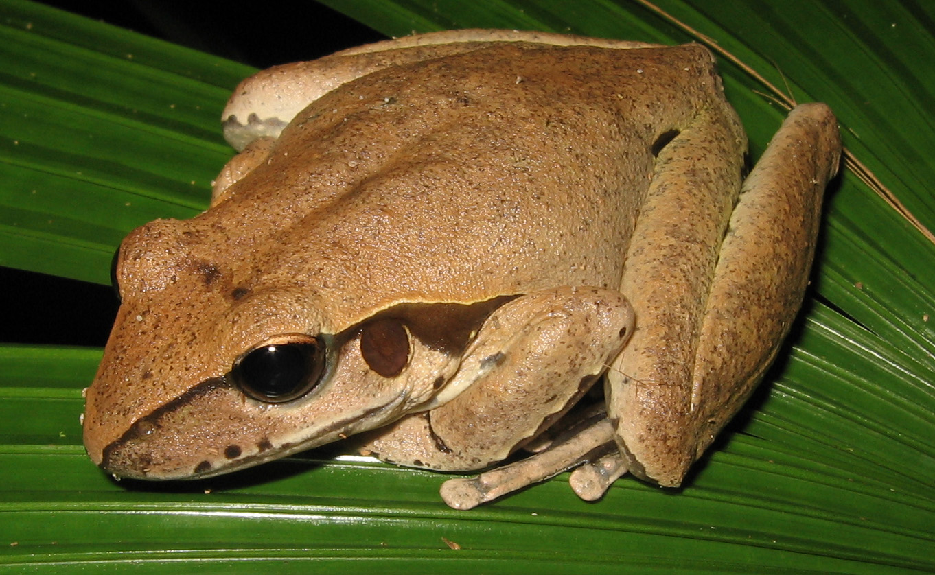 Litoria jungguy from Far North Queensland